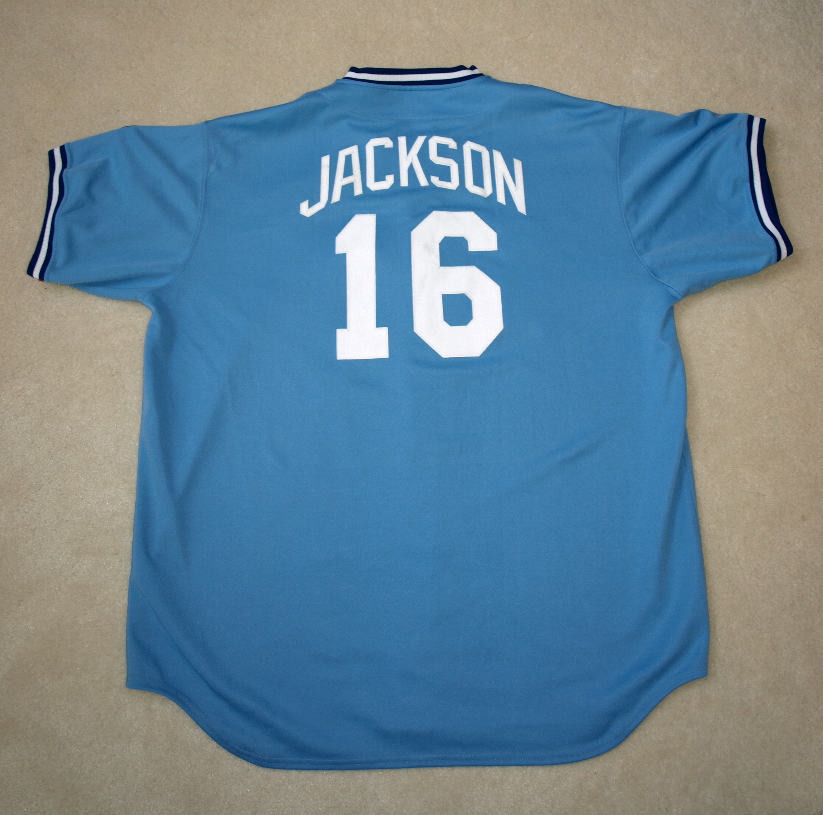 A replica of Bo Jackson's 1989 Kansas City Royals away uniform, manufactured by Mitchell & Ness.